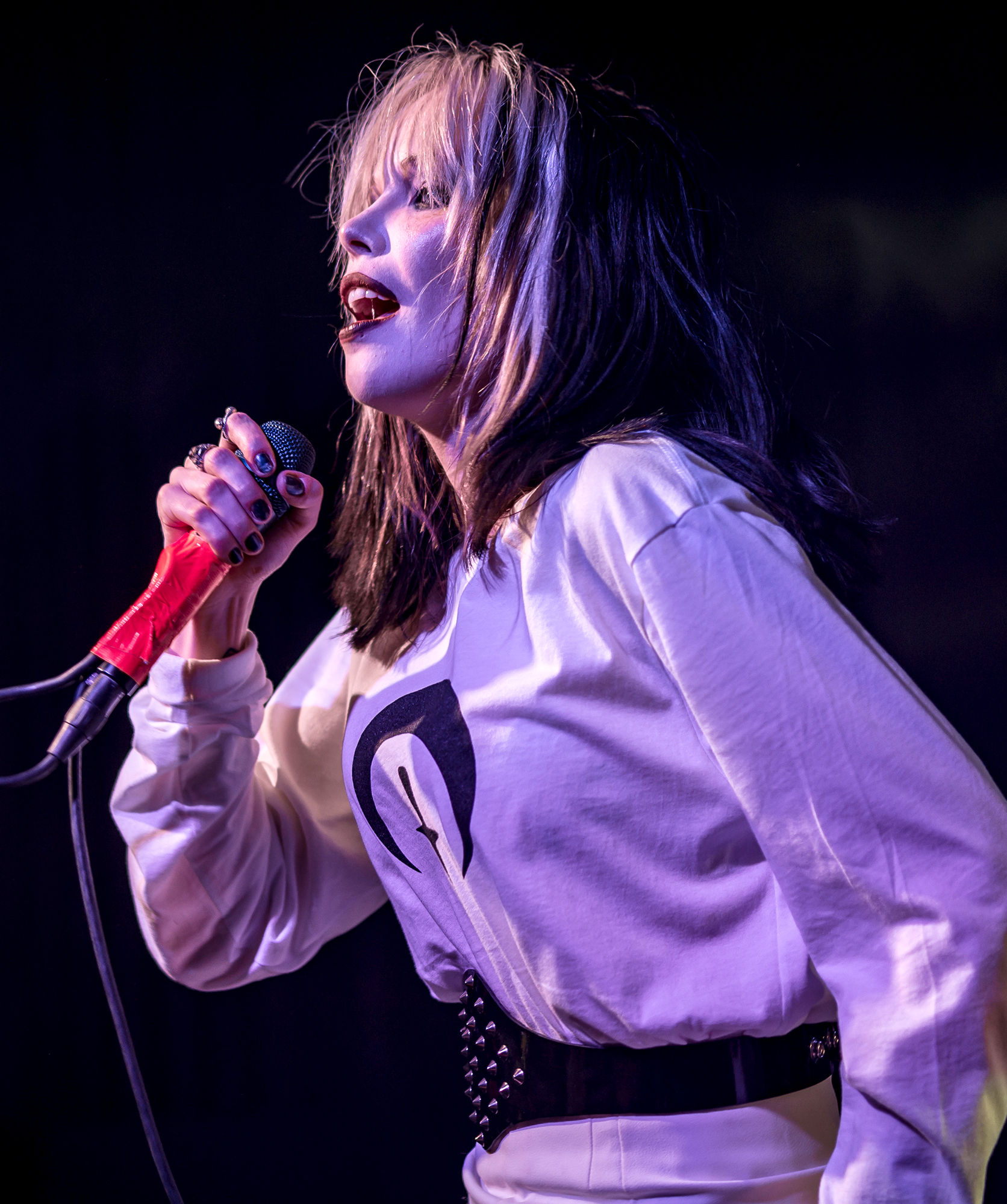 Alice Glass performing live at The Echo in Echo Park, Los Angeles on September 14, 2017.